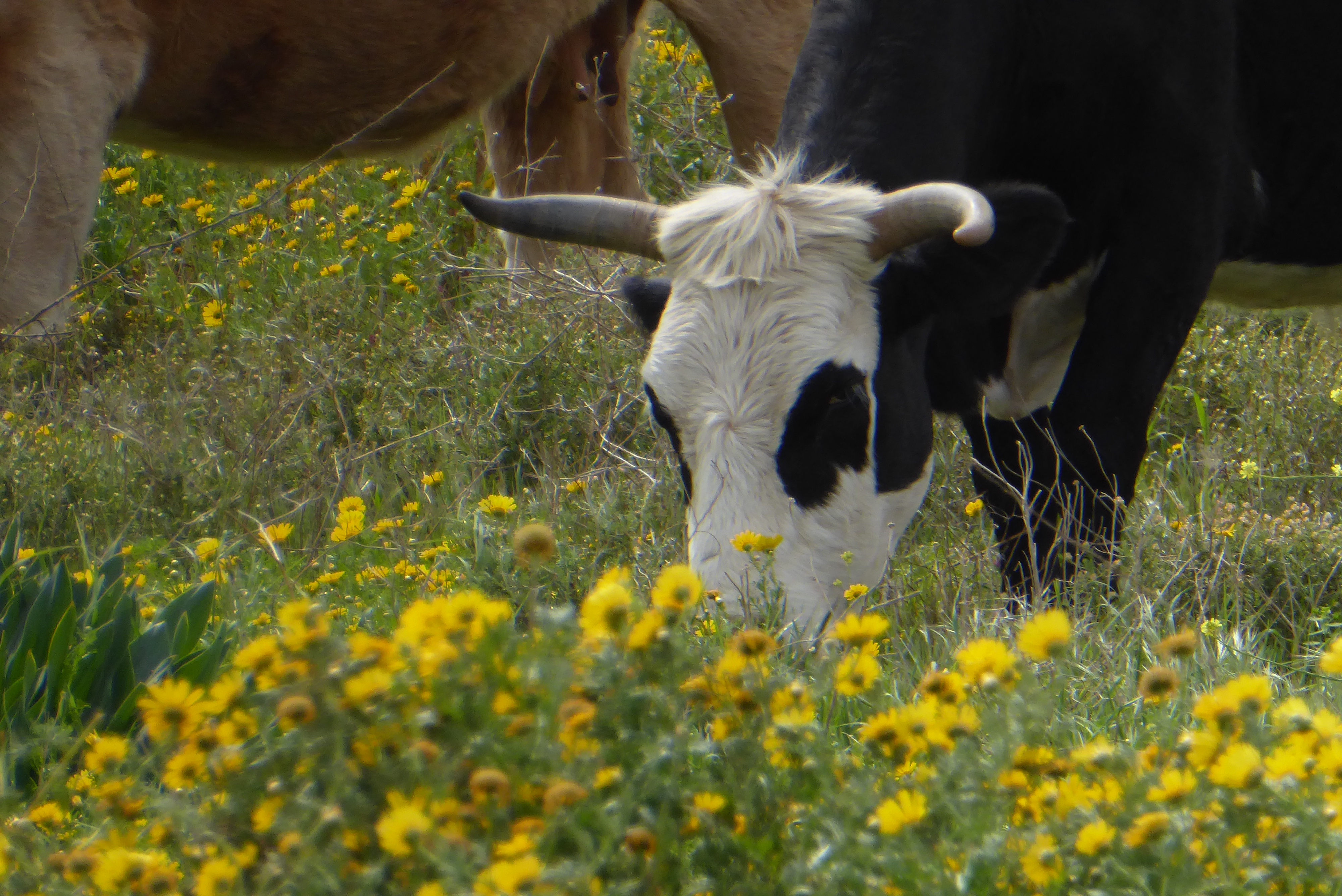 Animals of Israel